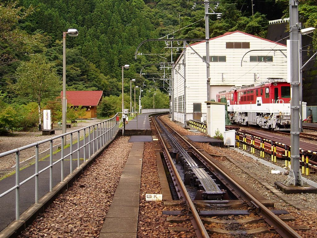 Inside of ABT Ichishiro Sta.